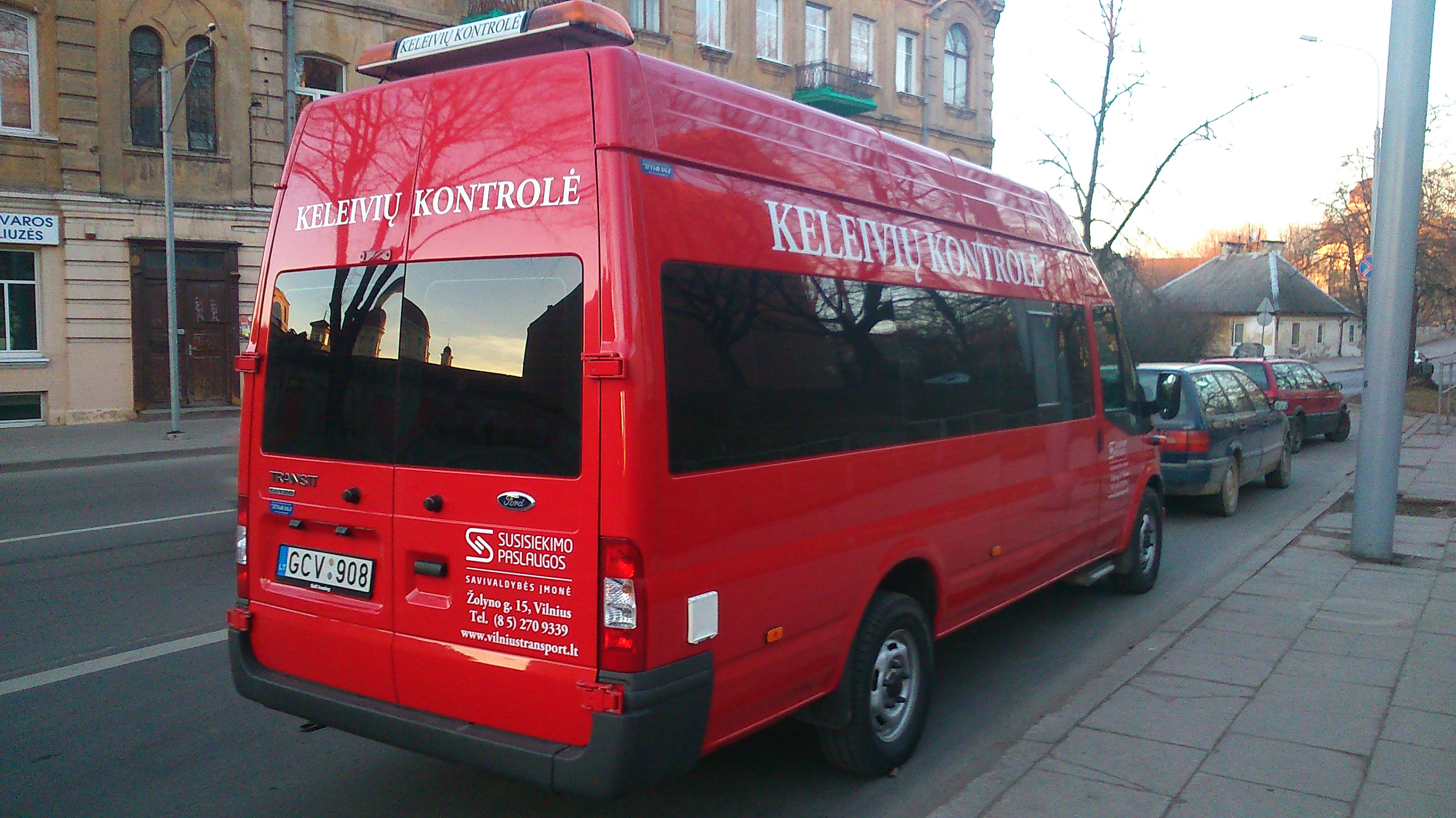 Susisiekimo paslaugos, auto